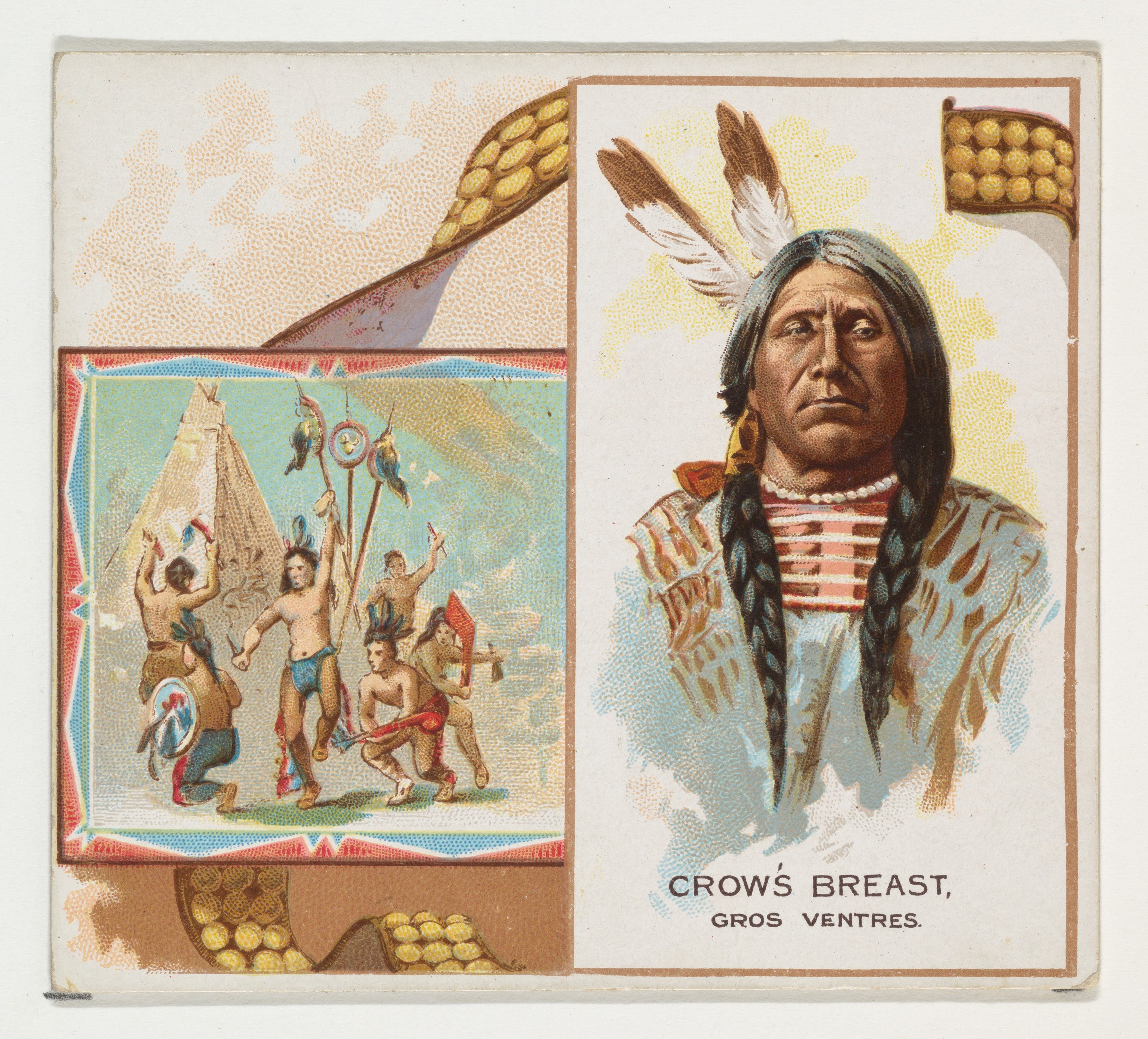 Print; Prints